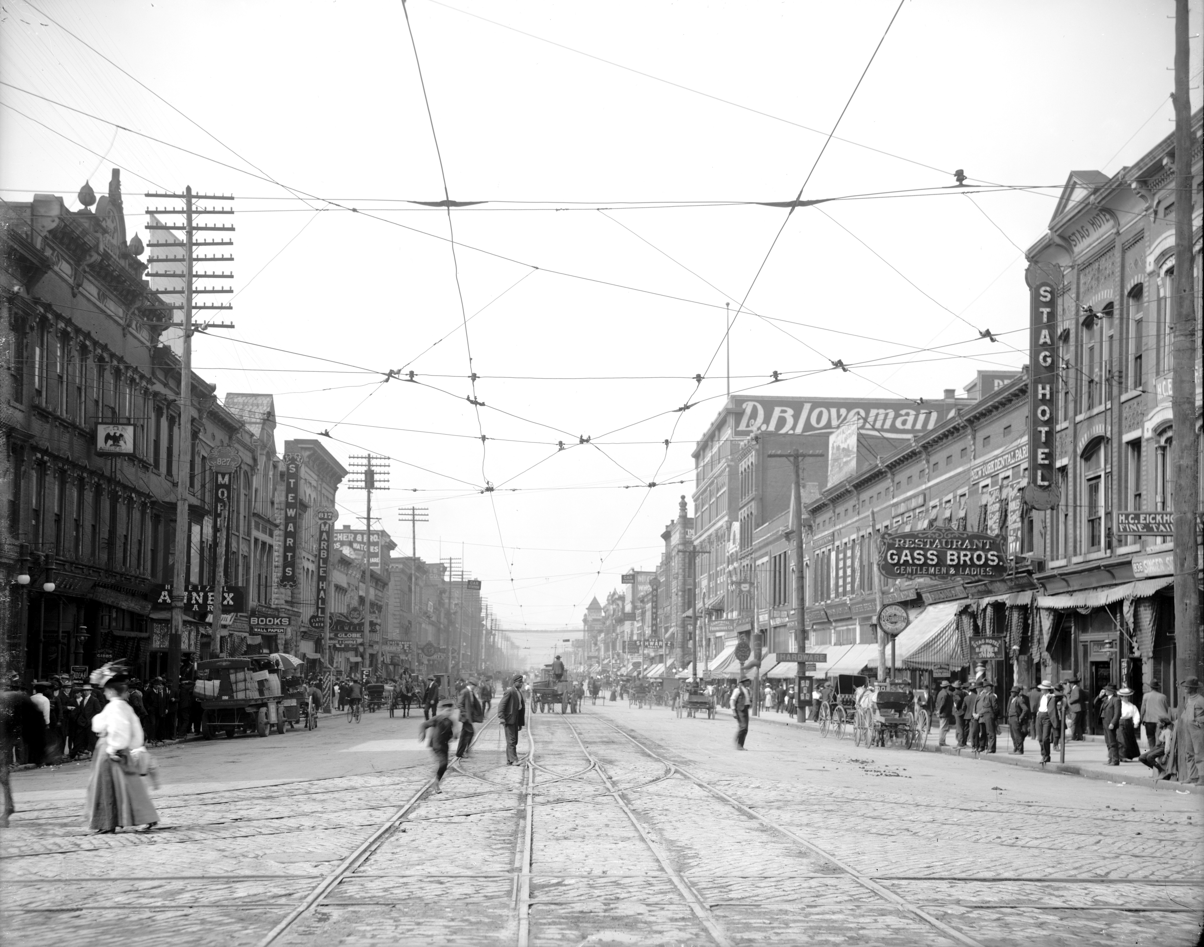 Market Square in Chattanooga, Tennessee, USA, in 1907.